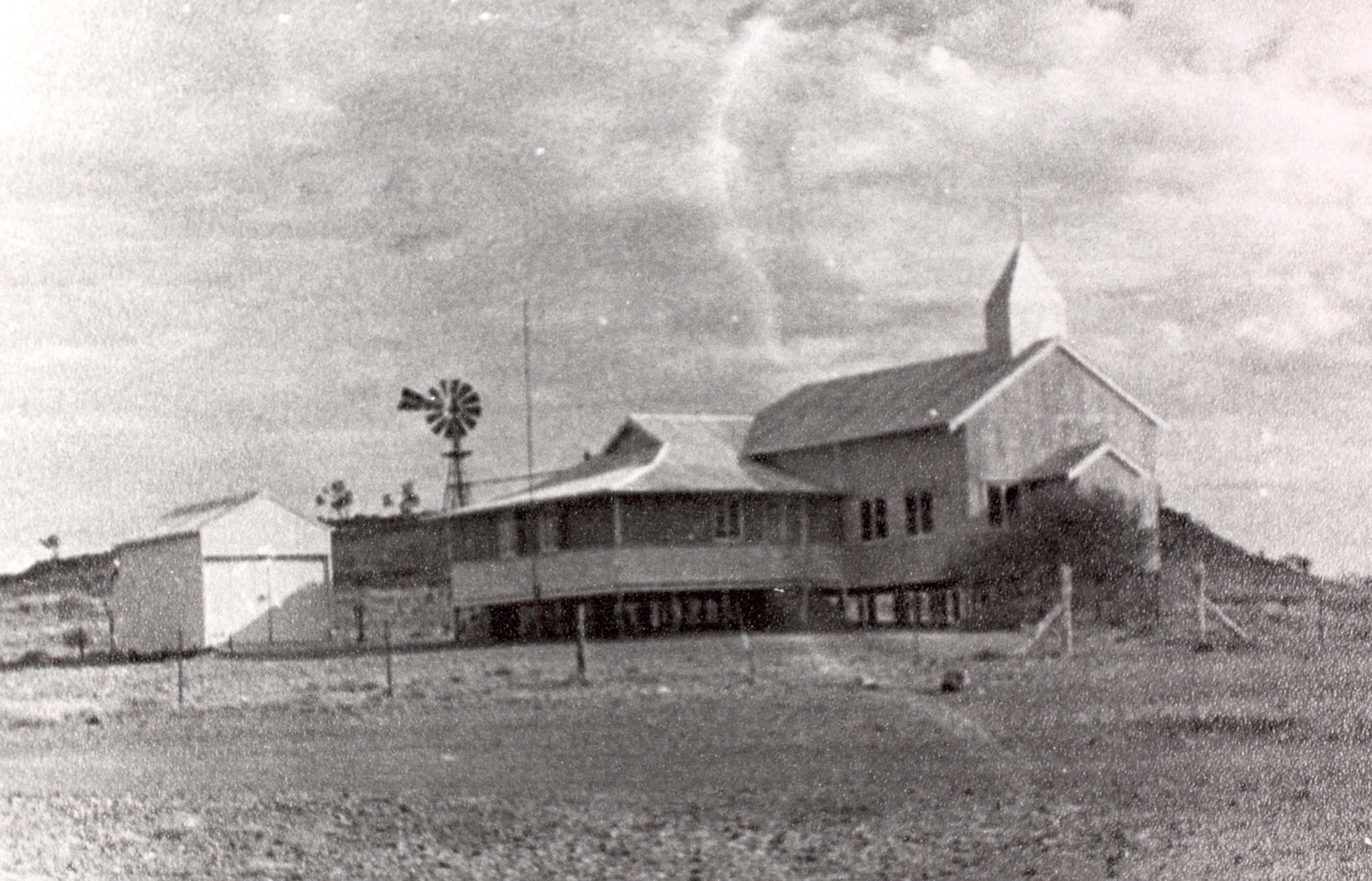 Catholic Church, Tennant Creek. The church was built in Pine Creek circa 1908 and later dismantled and carted to Tennant Creek in 1936.